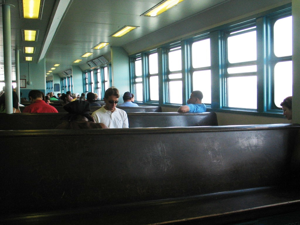 ANother view of the passenger space of the John. F Kennedy class boat, of the Staten Island Ferry